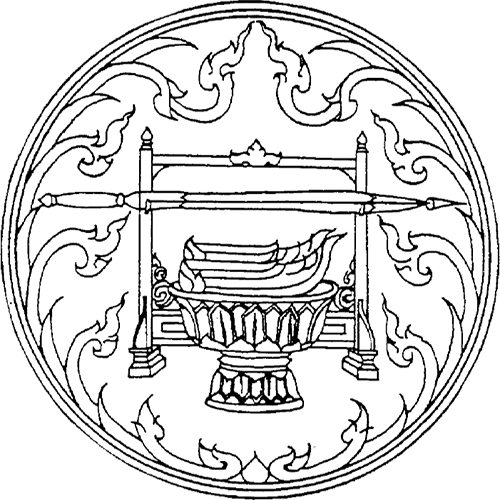 Provincial seal of Ratchaburi province.